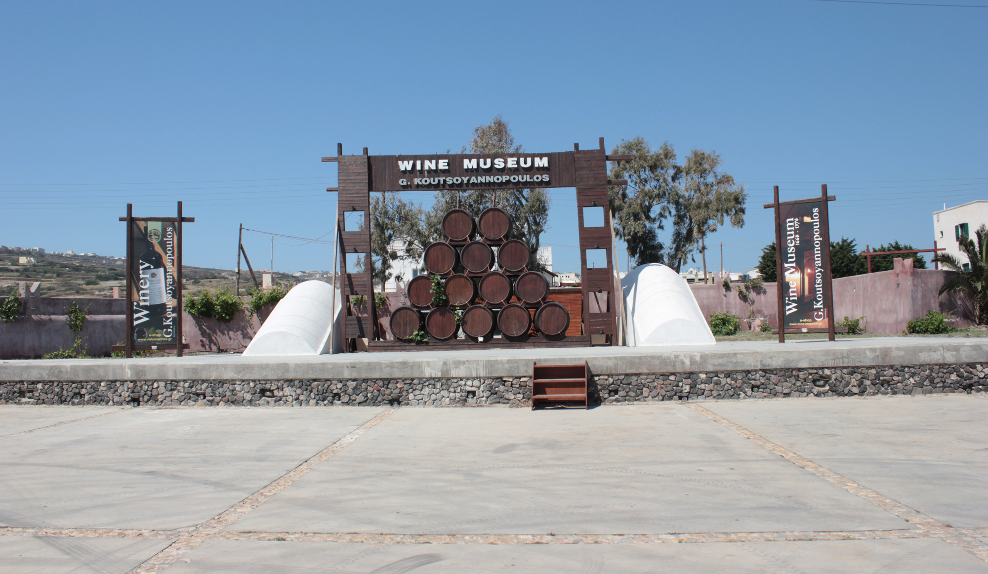 Cave Wine Museum G.Koutsoyannopoulos of Santorini, Greece